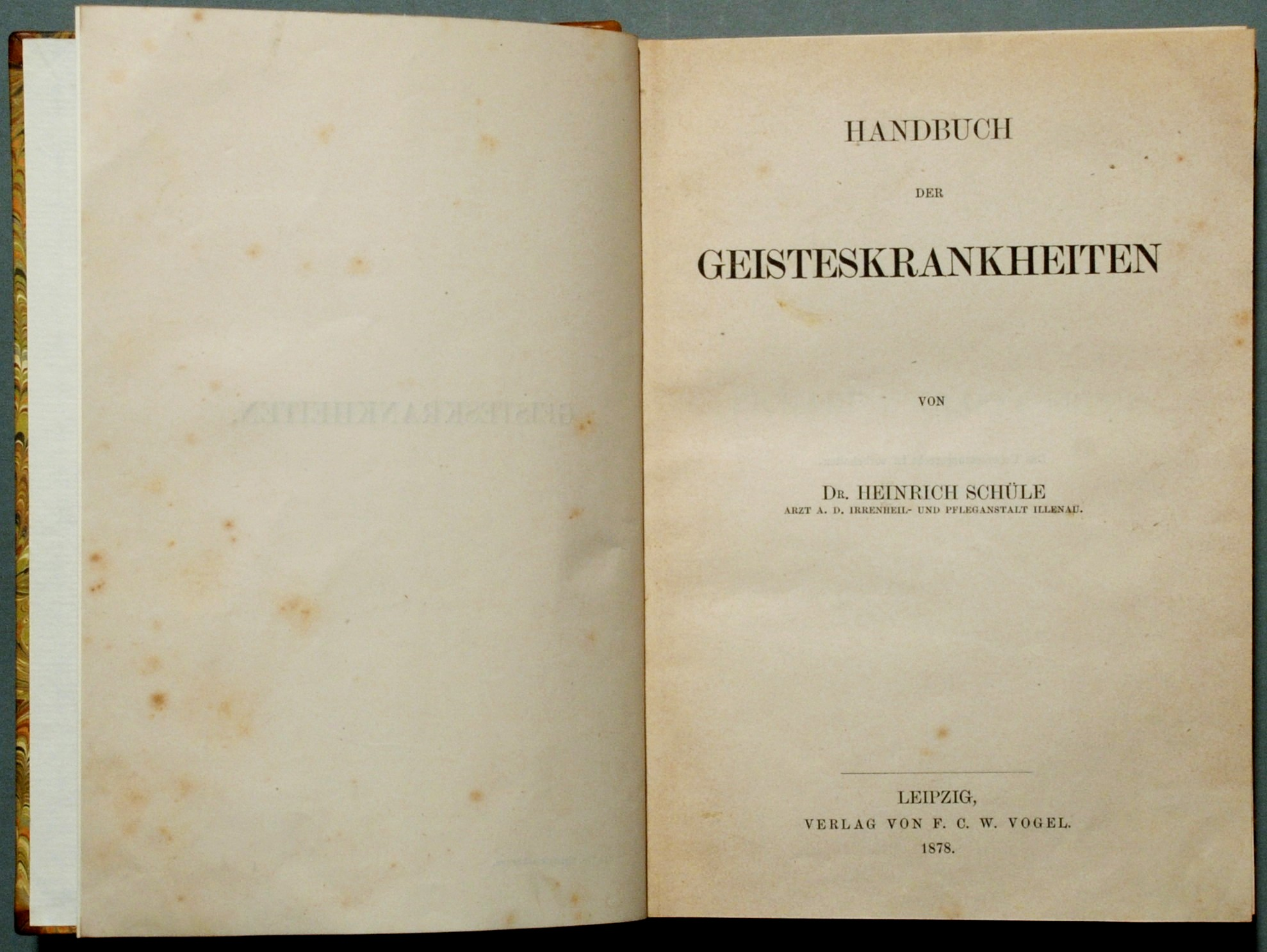 Schüle, Heinrich: Handbuch der Geisteskrankheiten (Manual of mental illnes). Leipzig (Germany): F. C. W. Vogel 1878